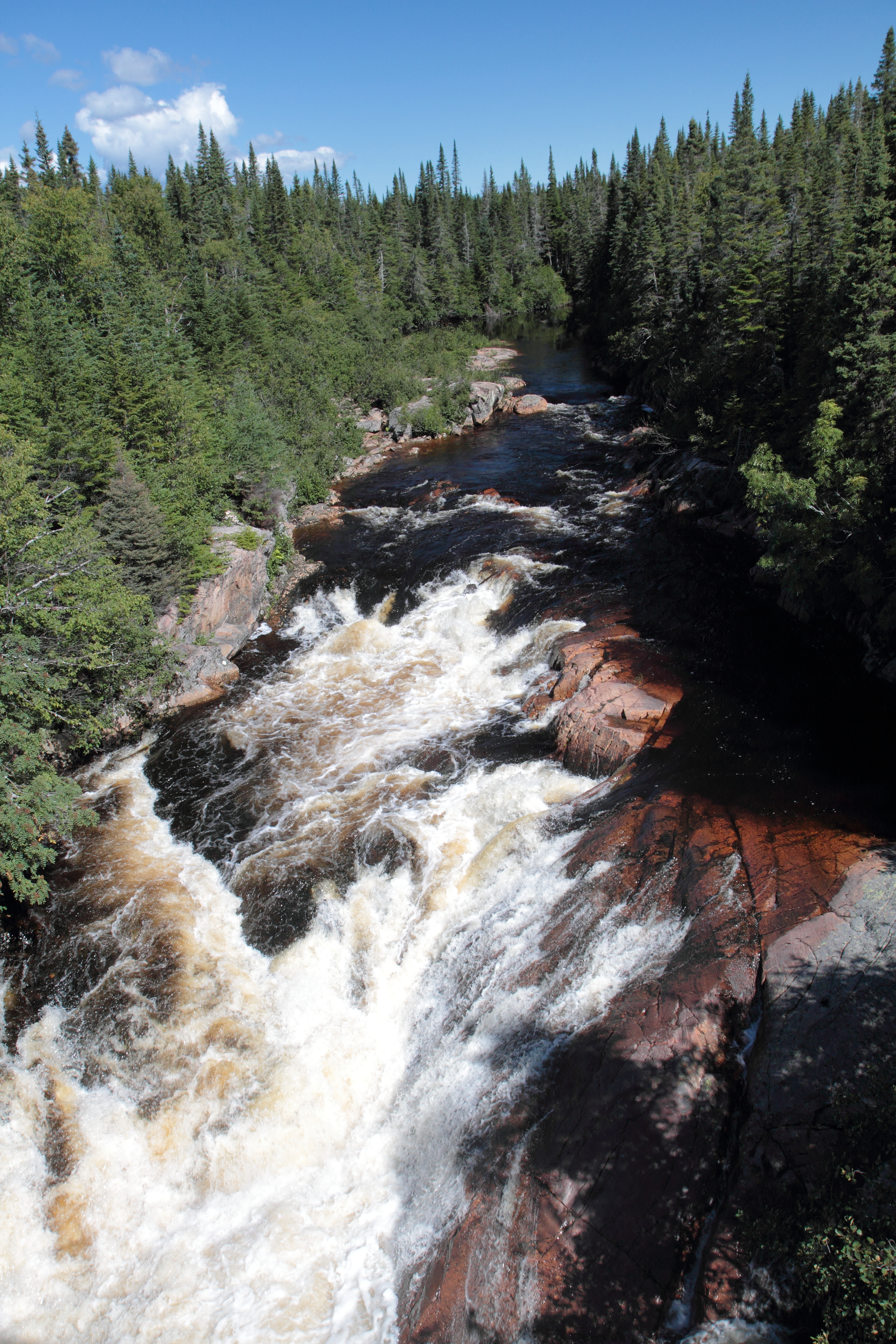 Jupitagon river, Rivière-Saint-Jean, Quebec, Canada